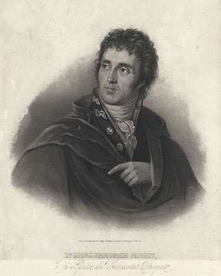 Georg Friedrich Parrot (1767–1852), Rector of the University of Tartu (Dorpat) in 1802-03, 1805-06 and 1812-13